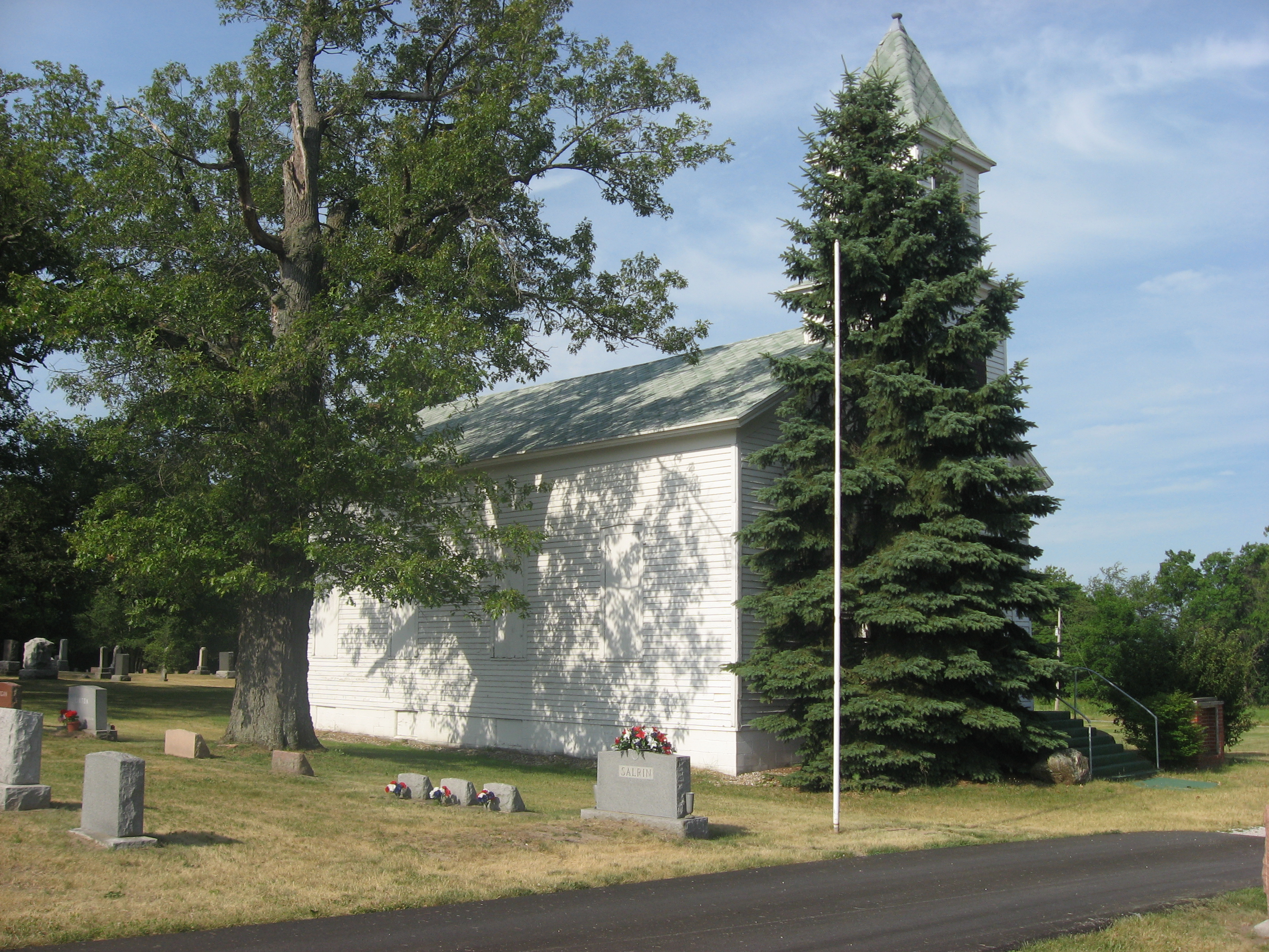 Front and eastern side of the former Independence Methodist Church, located at the junction of N500E and E375N southwest of Medaryville in Gillam Township, Jasper County, Indiana, United States. Built in 1872, it is listed on the National Register of Historic Places.